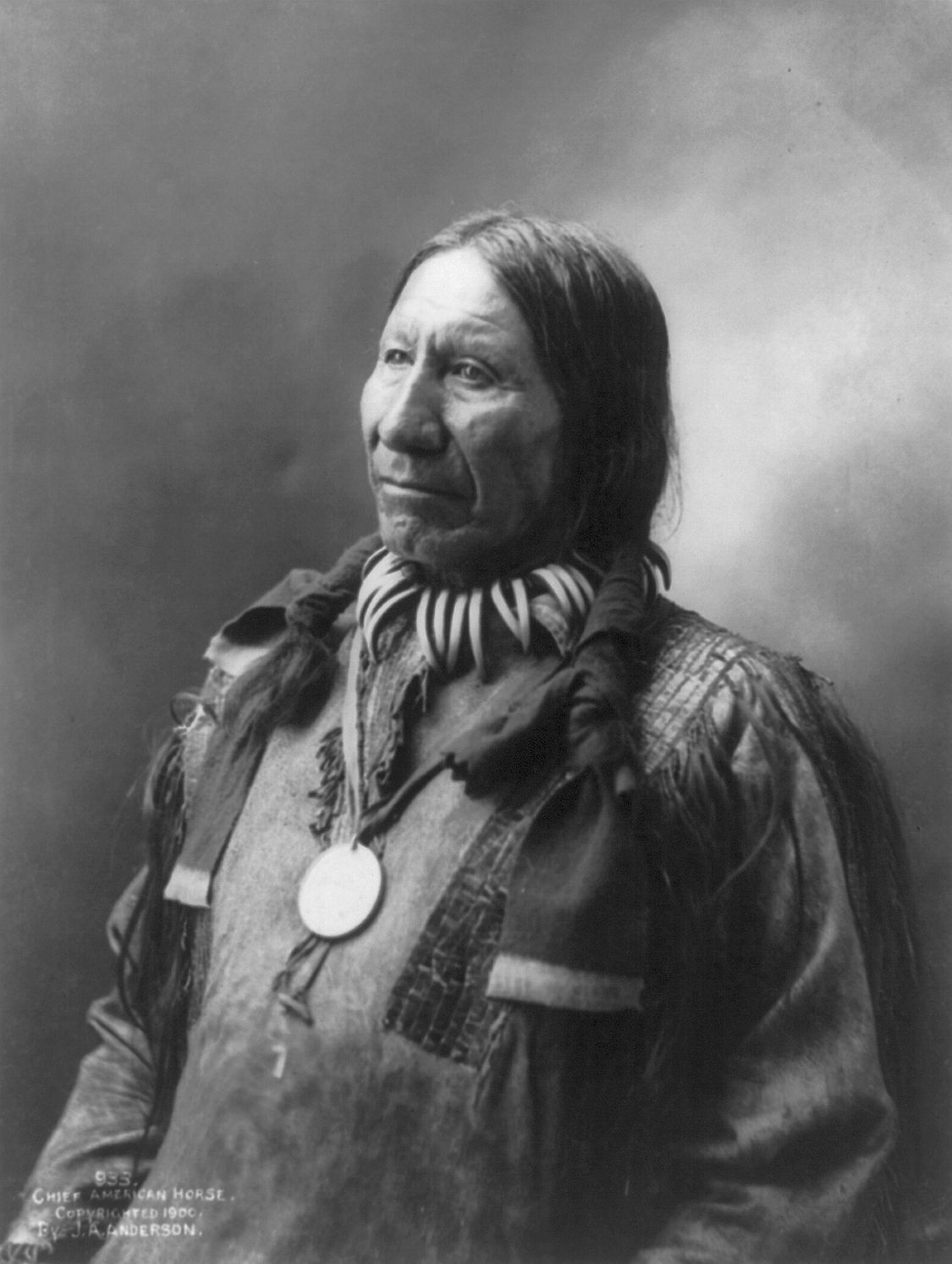 American Horse (Oglala Lakota) — portrait, half lgth., facing left.